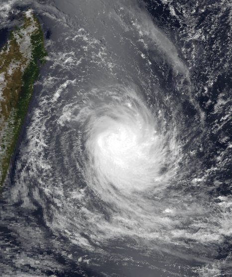 Tropical Cyclone Firinga on January 29, 1989